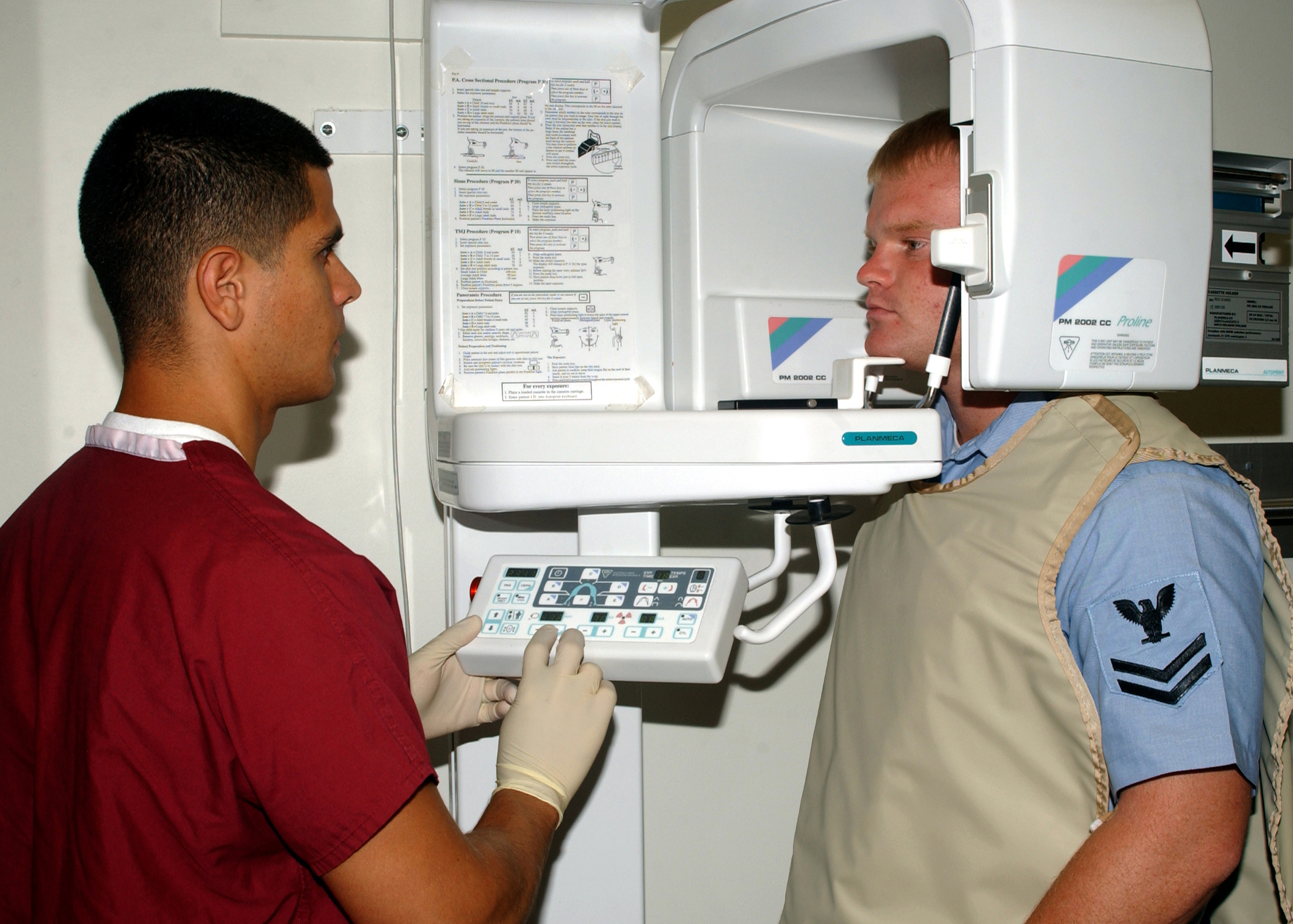 Dental Technician 3rd Class Jose Sanchez prepares a patient for dental X-Rays at the Naval Hospital on board Naval Air Station Jacksonville, Fla. U.S. Navy photo by Photographer's Mate 3rd Class Clarck Desire